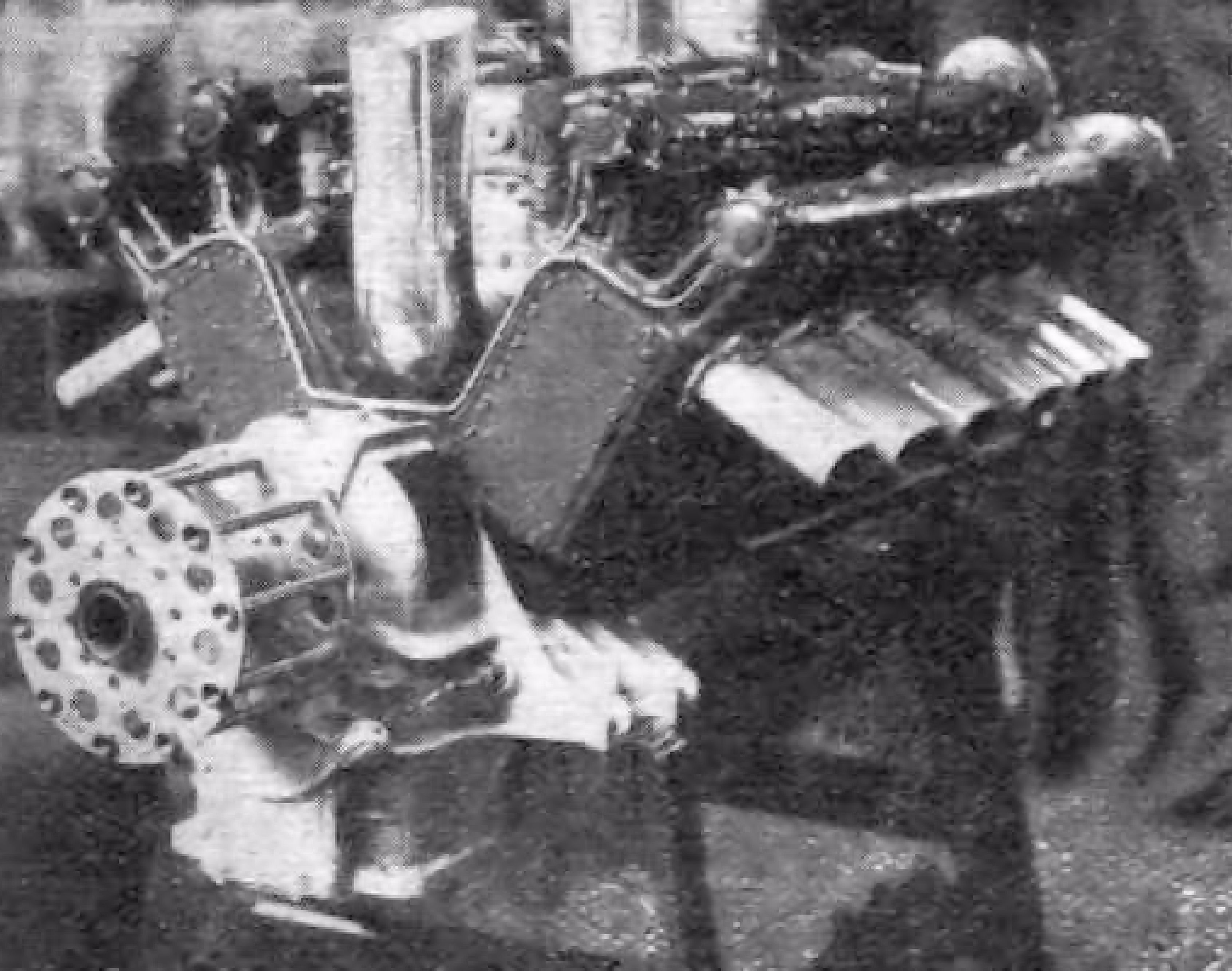 A Sunbeam Manitou V-12 water-cooled piston engine, on display at the 1919 Paris Aero Salon